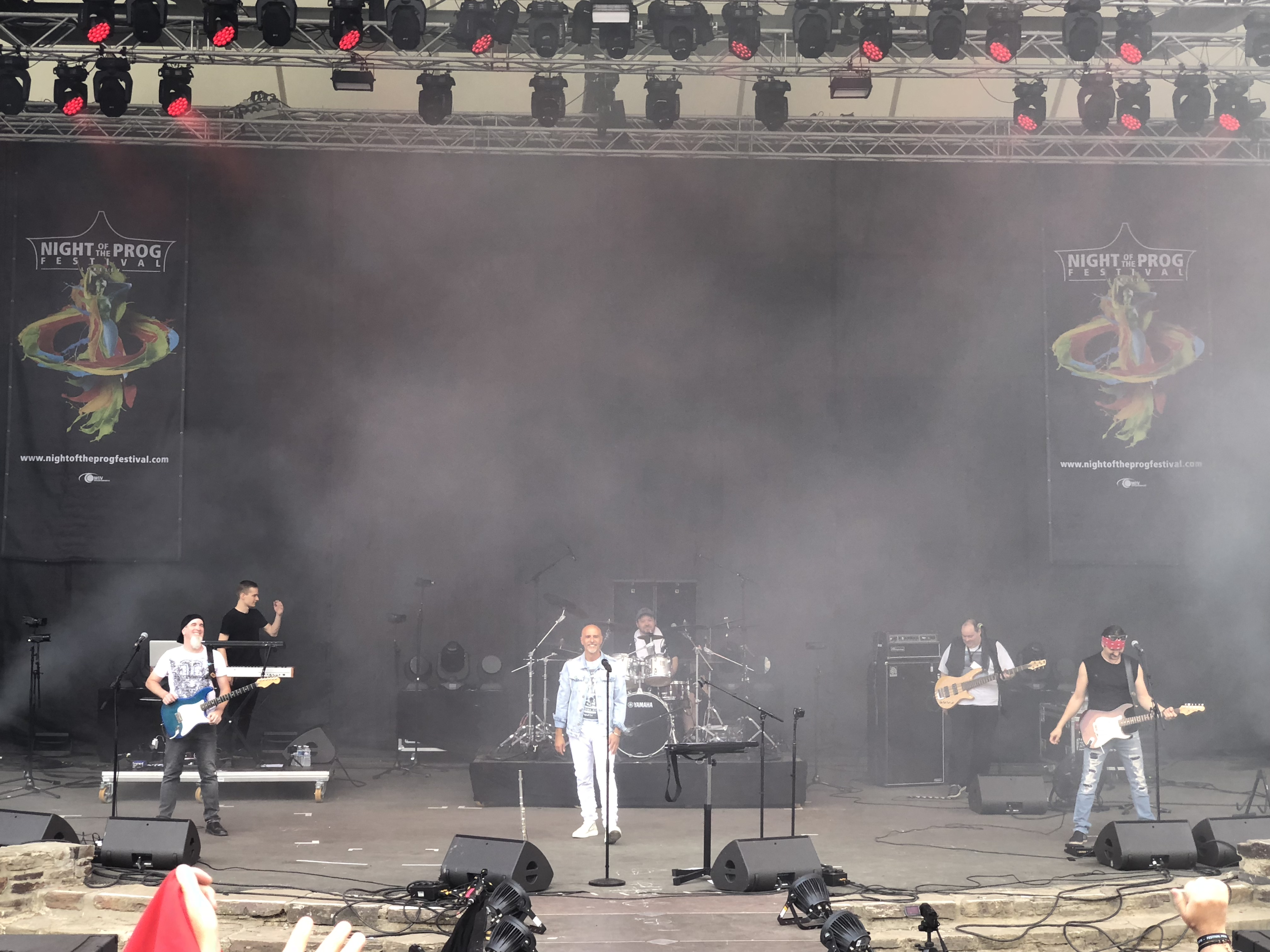 Mystery at the Night Of The Prog Festival, 14. Jul. 2018